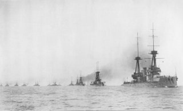 Home Fleet about 1904-05. Probably well out of copyright. From [1]